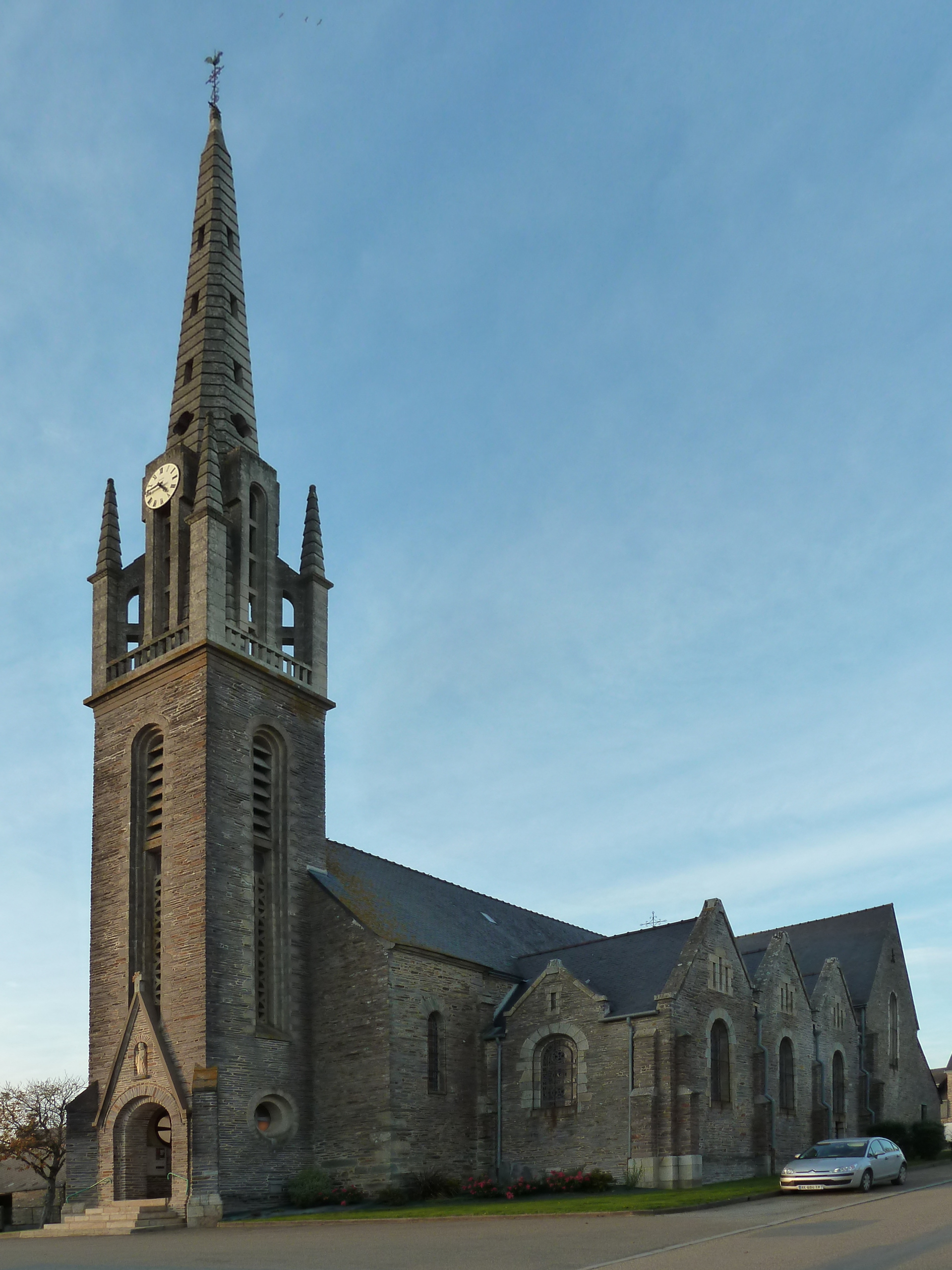 Saint-Just church in Saint-Just, Bretagne, France.